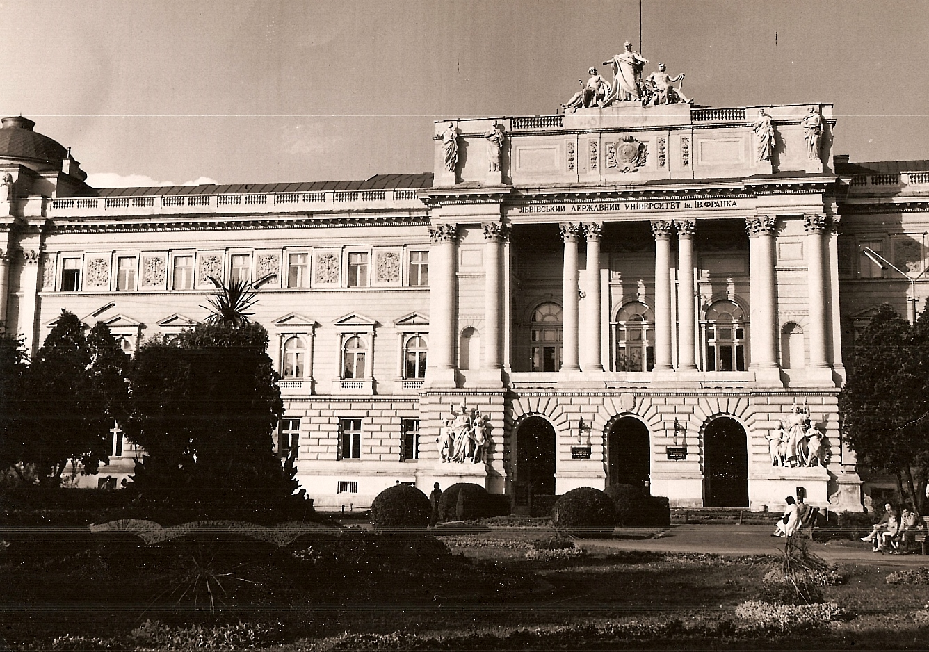 University Lviv 1950-1960